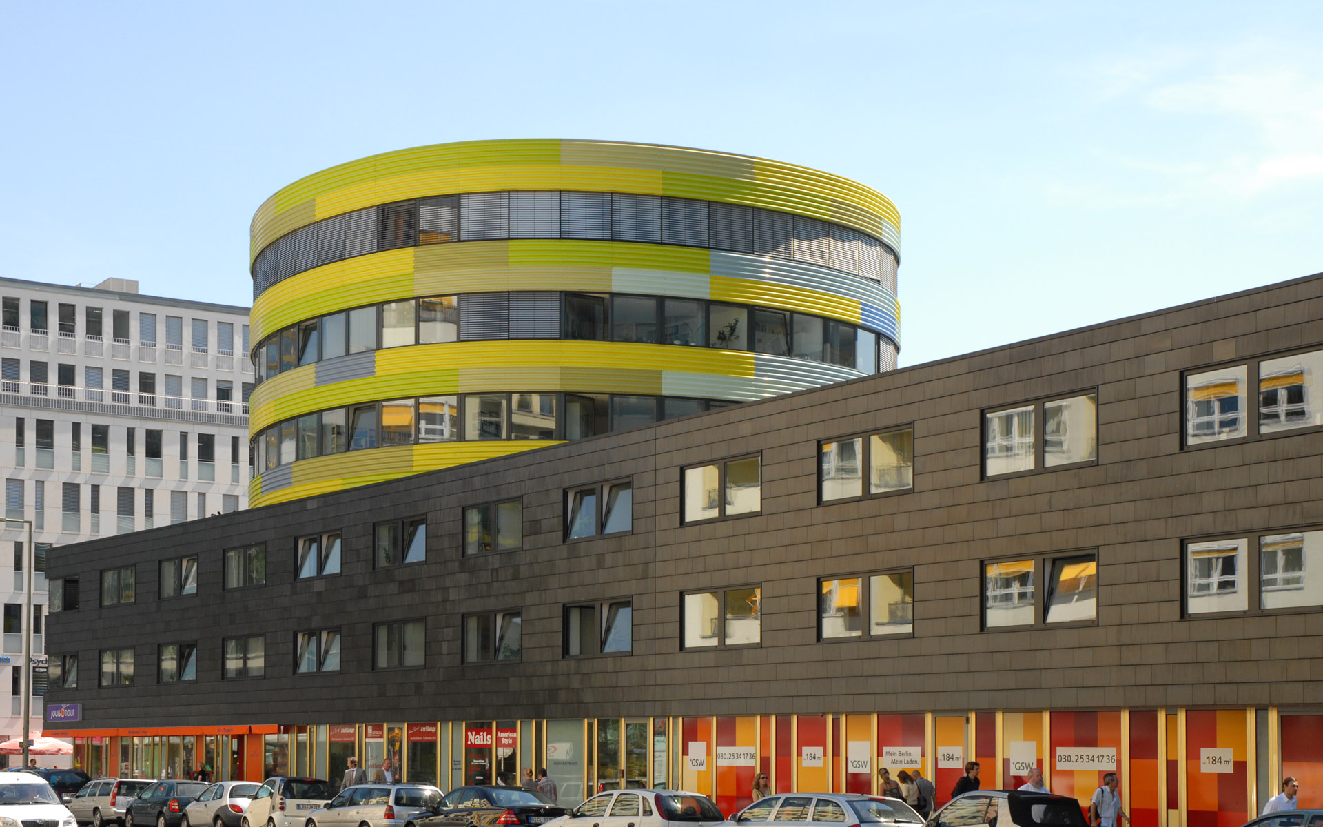 "Extension de l'Immeuble du GSW architectes : Matthias Sauerbruch, Louisa Hutton, Berlin, 1995-1999" GSW building (extension)